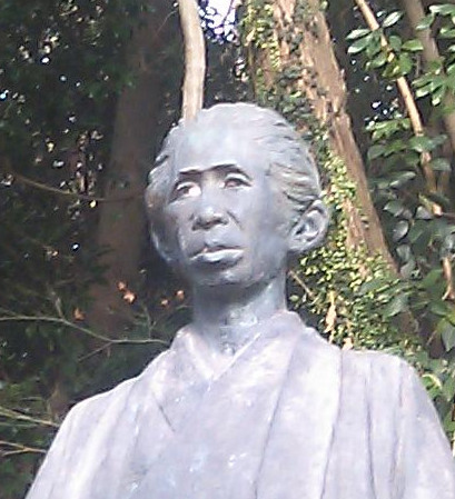 Motoki Shiozo Bronze Sculpture in Nagasaki, Japan